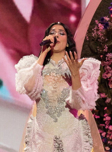 Katerine Duska at the Eurovision Song Contest 2019 in Tel Aviv.